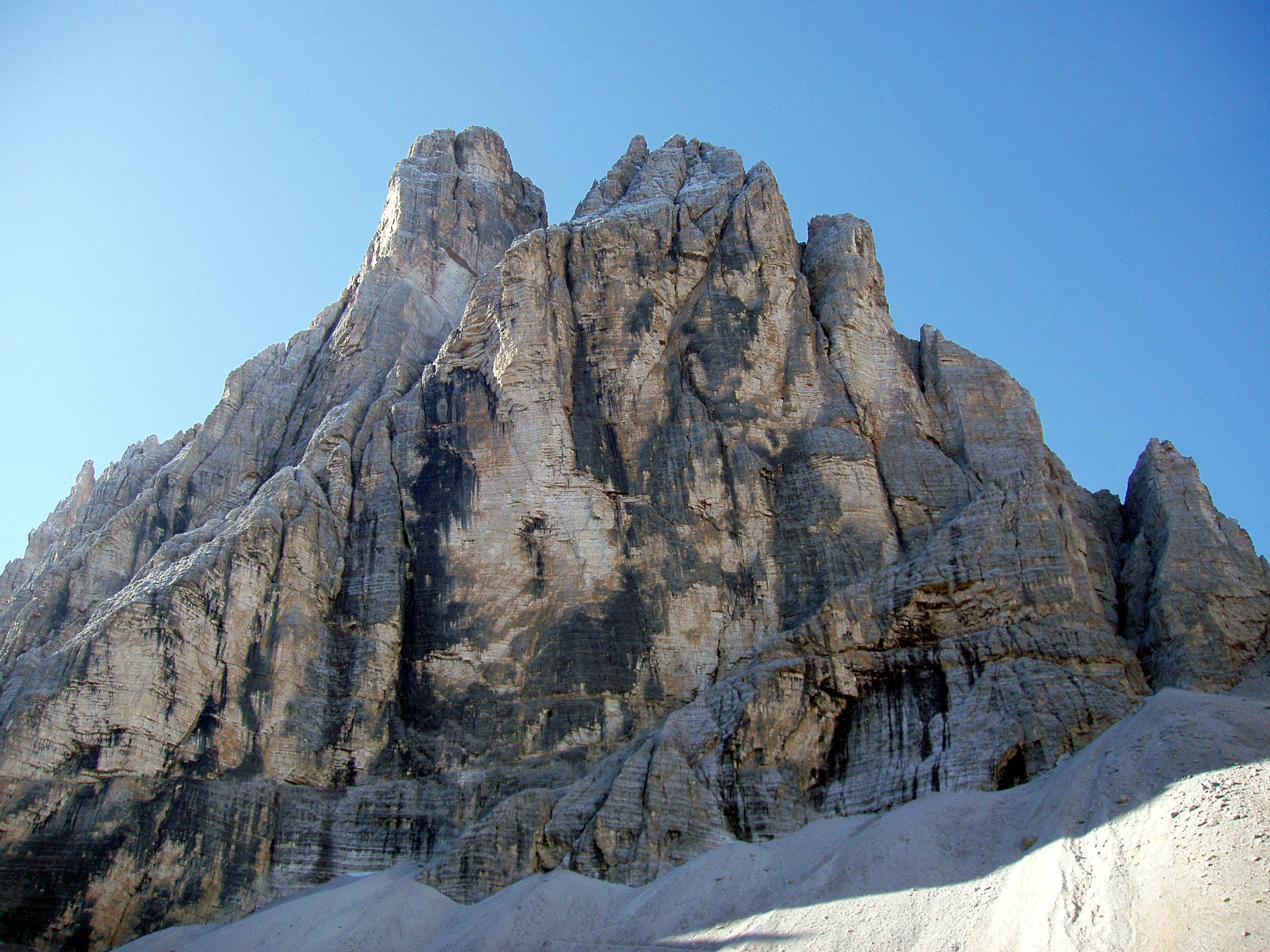 The picture shows a mountain called Zwölferkofel (Croda dei Toni) in the Sexten Dolomites. It was taken from the valley Bacherntal in the north of the mountain.